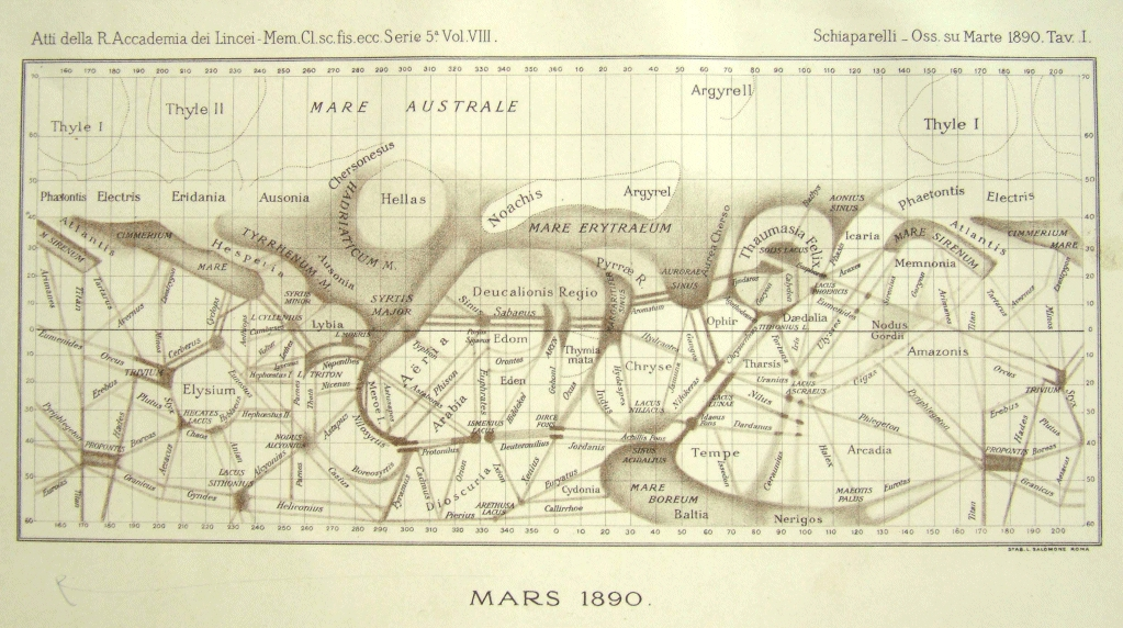 Atlas of Mars by Giovanni Schiaparelli, according to observations he made in March 1890. South is up.